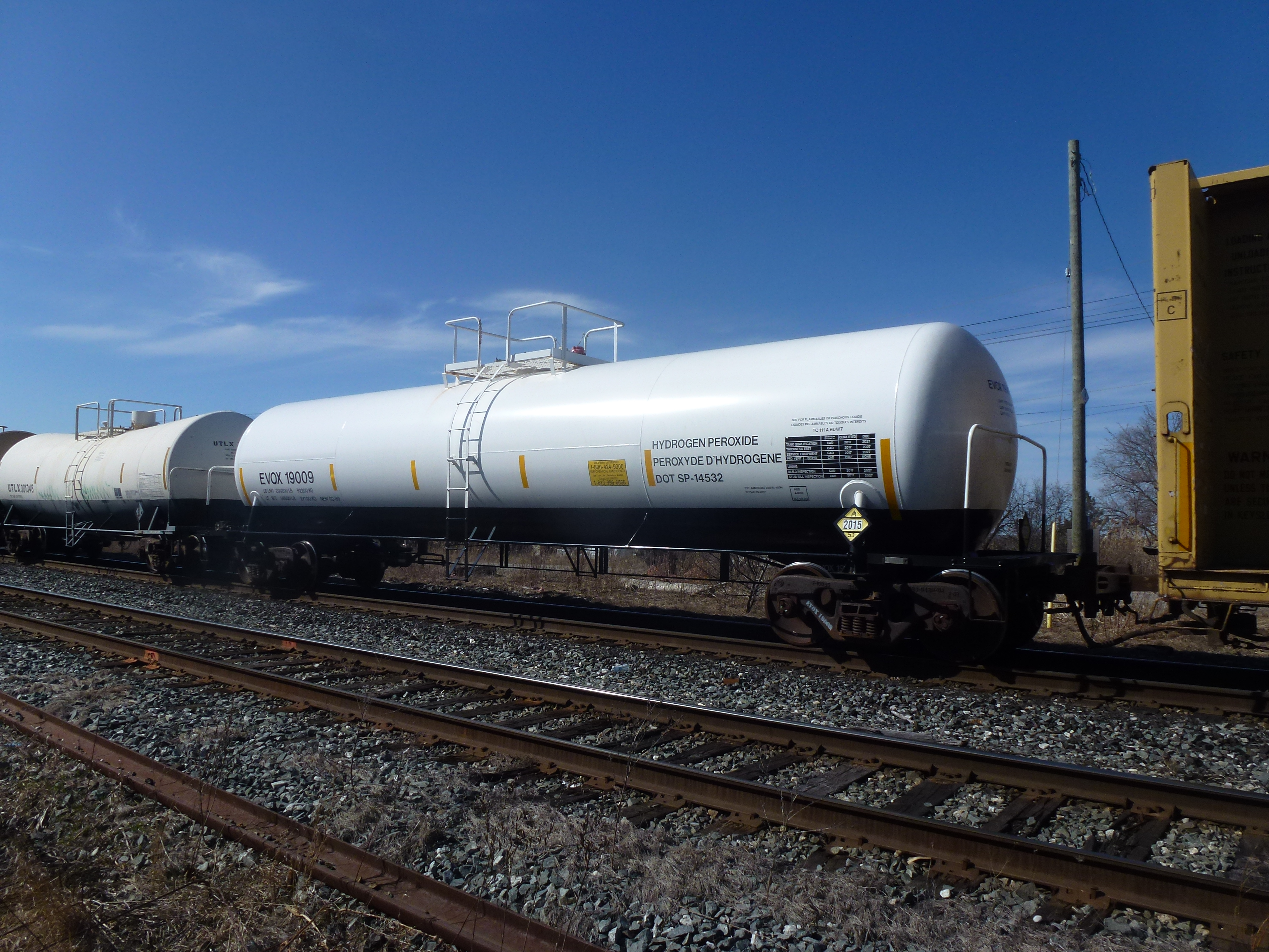 A tank car designed for transporting hydrogen peroxide (H 2O 2) by rail, in a westbound Canadian Pacific train passing through Bolton, Ontario.